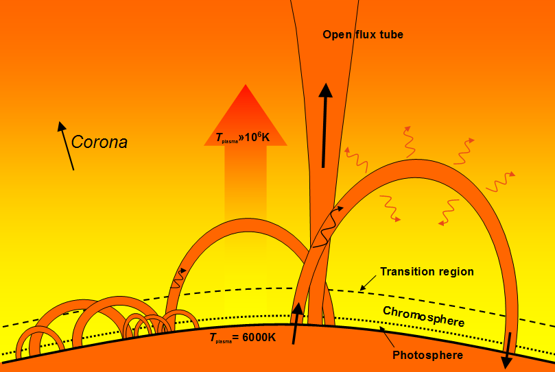 A cartoon depicting the different scales of coronal loop that exist in the lower corona and transition region. Many scales have been observed and it is believed there are many sub-resolution structures below the transition region threading through the chromosphere. Highly radiating coronal loops may share the same footpoint location as open flux tubes (i.e. solar wind and coronal holes) and therefore may share similar physics leading to the conjecture that coronal loops may share similar heating mechanisms as the solar wind.